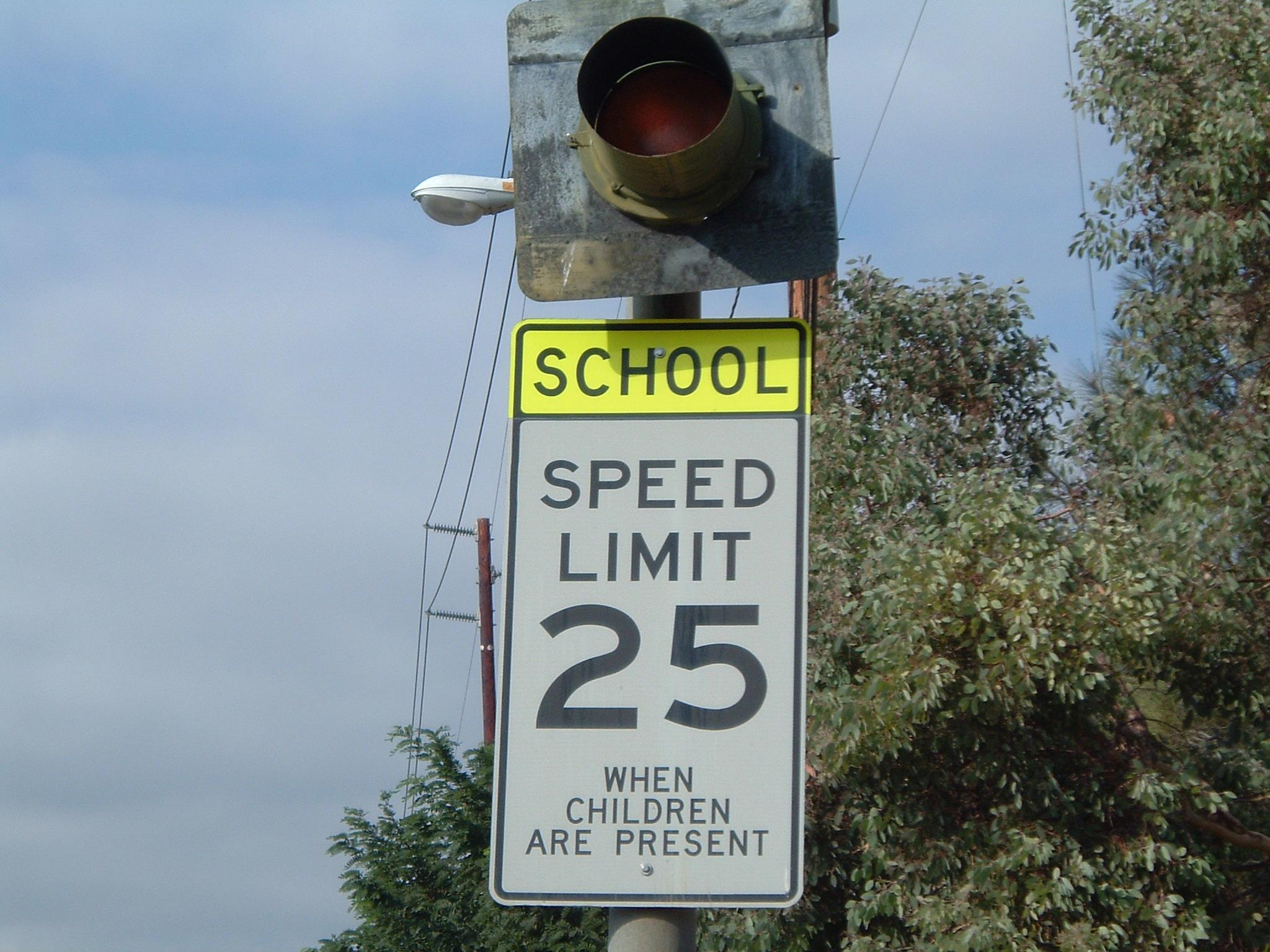 a School zone speed limit sign and warning light in Calabasas, Southern California. Located on the southern end of the zone on Las Virgenes Road by Arthur E. Wright Middle School.